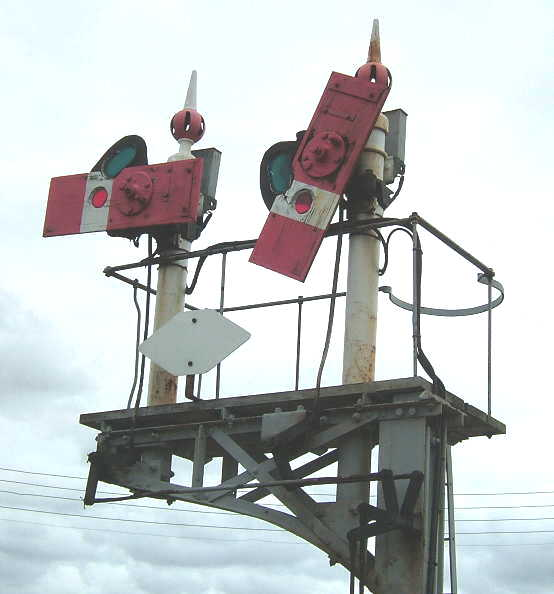 Original digital image. Signalhead 21:13, 26 January 2007 (UTC)